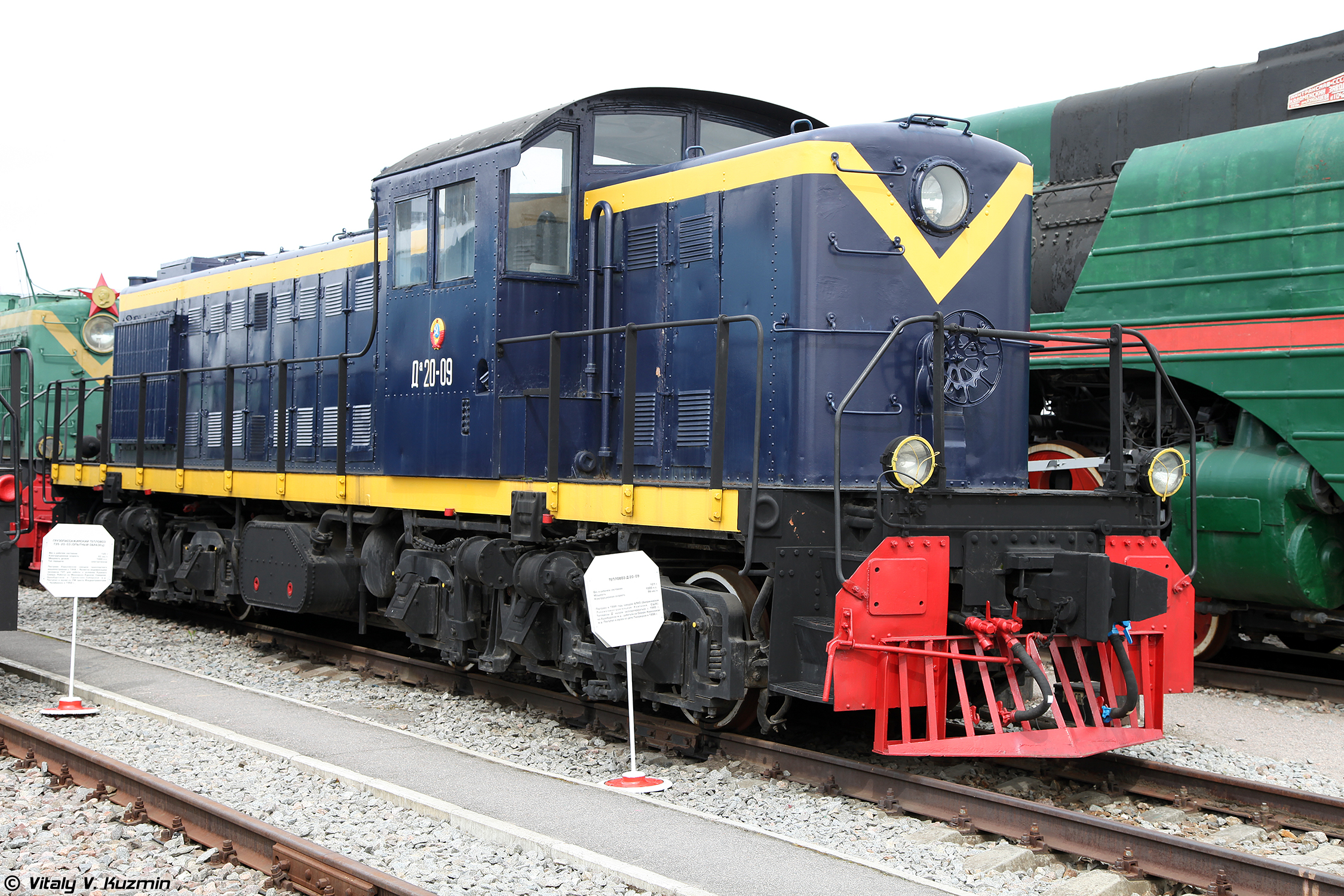 Da20-09 diesel locomotive